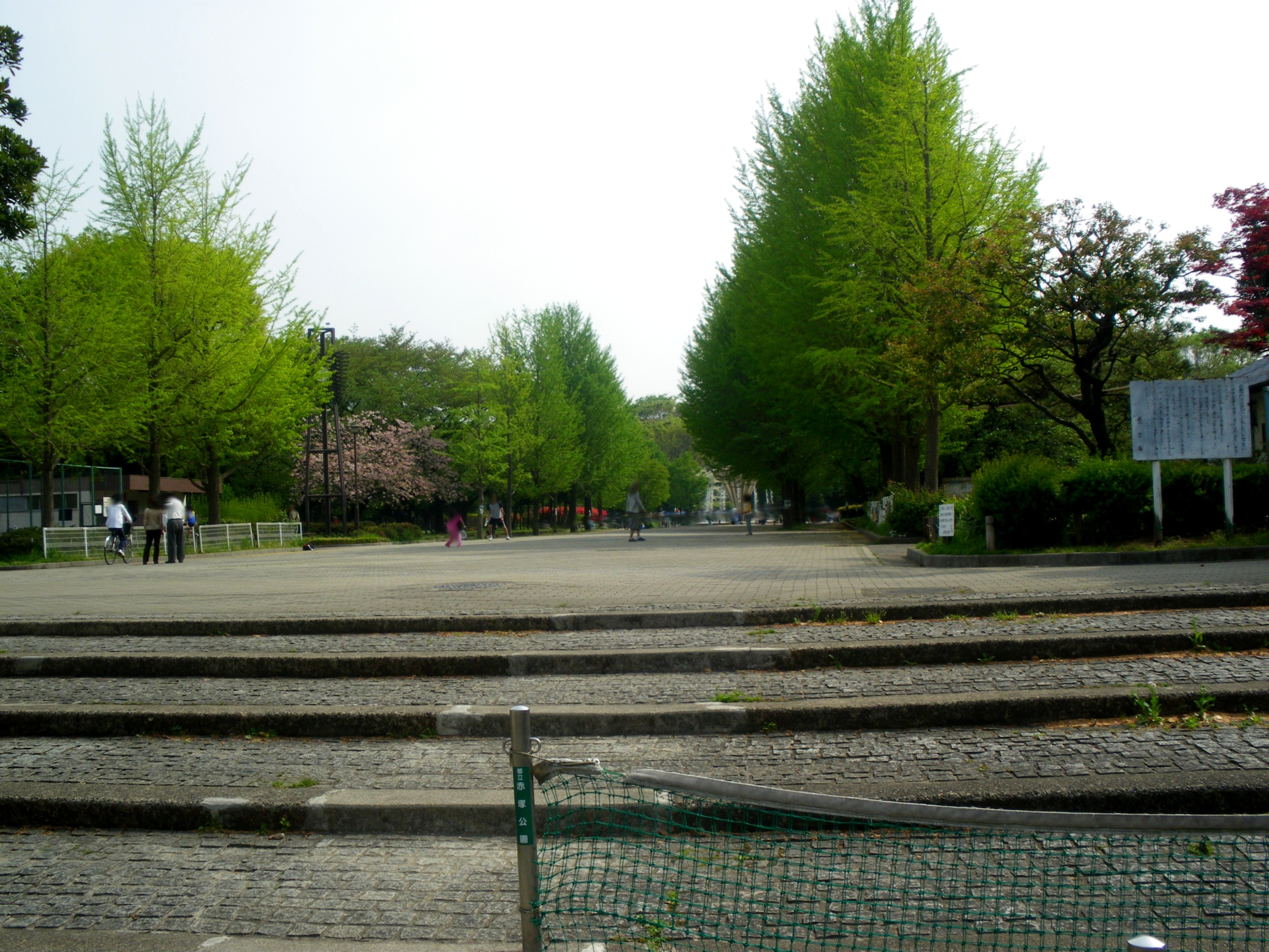 Akatsuka Park(Takashimadaira,Itabashi,Tokyo)